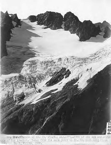 Written on front: Detail of No. 71, [item 20] showing stratification of the ice and structure of the glacier. Taken from the same point as No. 71 [item 20], with long focus lens. PH Coll 1415.21